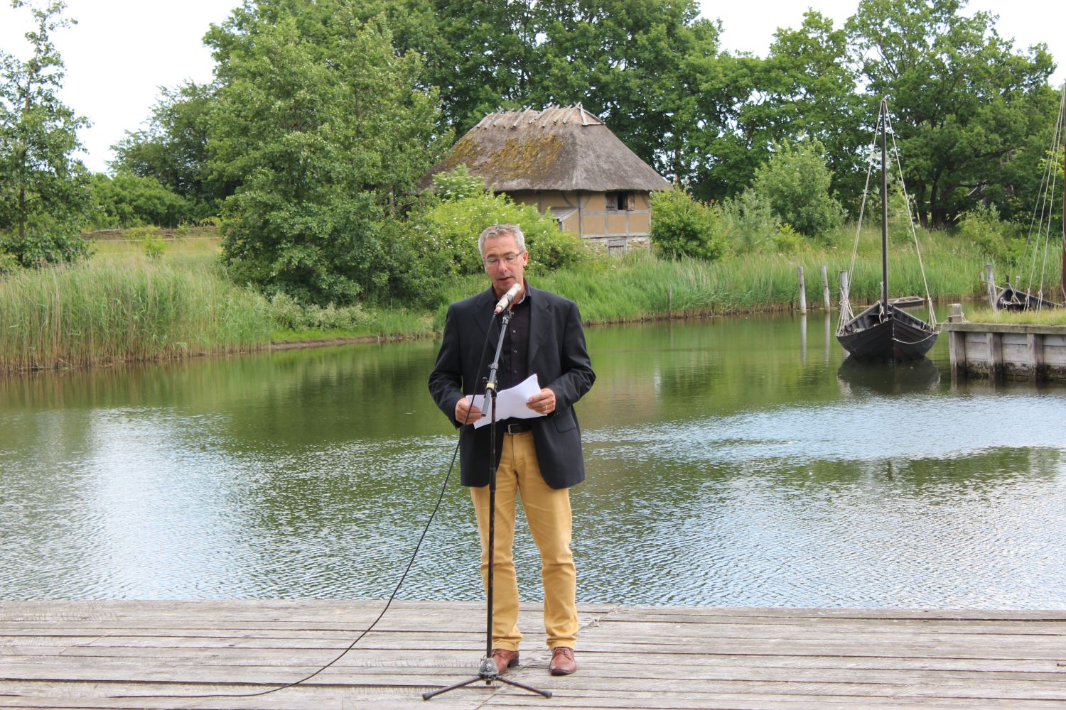 The mayor of Guldborgsund Municipality John Brædder at Middelaldercentret in June 2013